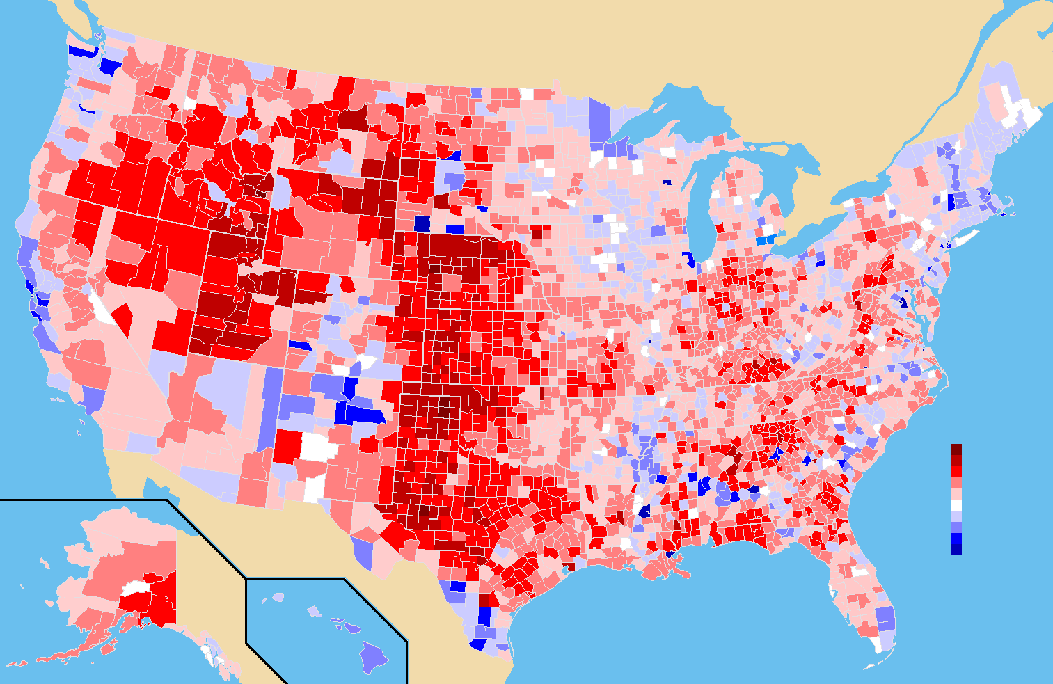 2004 USA election by county map percentage